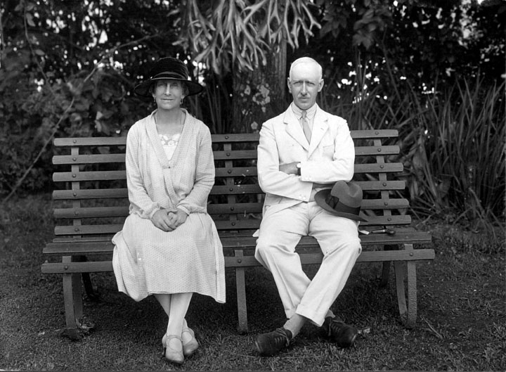 Portrait of Lady and Sir John Goodwin. (Lieutenant-General Sir Thomas Herbert John Chapman Goodwin, Governor 13 June 1927 - 7 April 1932)